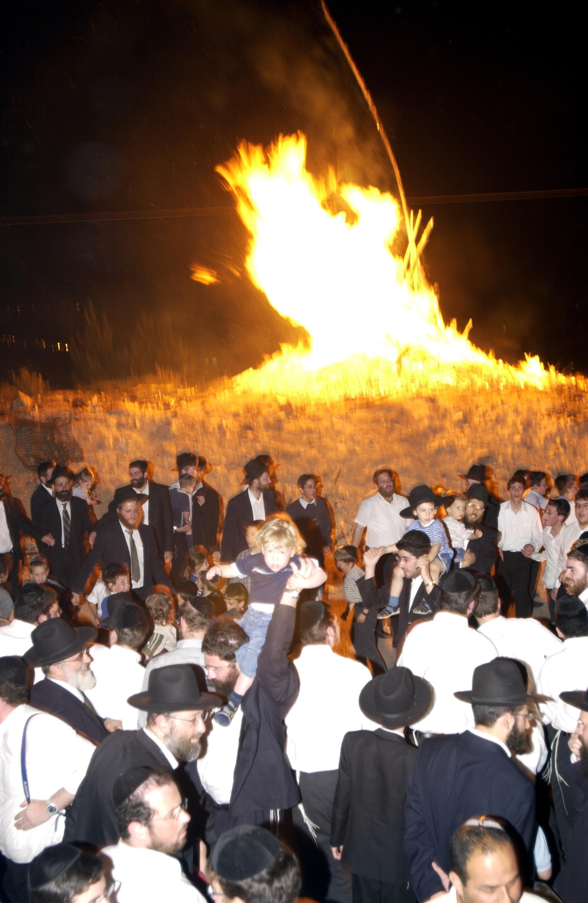 Lag Ba'Omer celebrations in Bayit Vegan, Jerusalem. In photo, people crowd by the bonfires. לג בעומר בבית וגן Photo: AMOS BEN GERSHOM, 05/19/2003